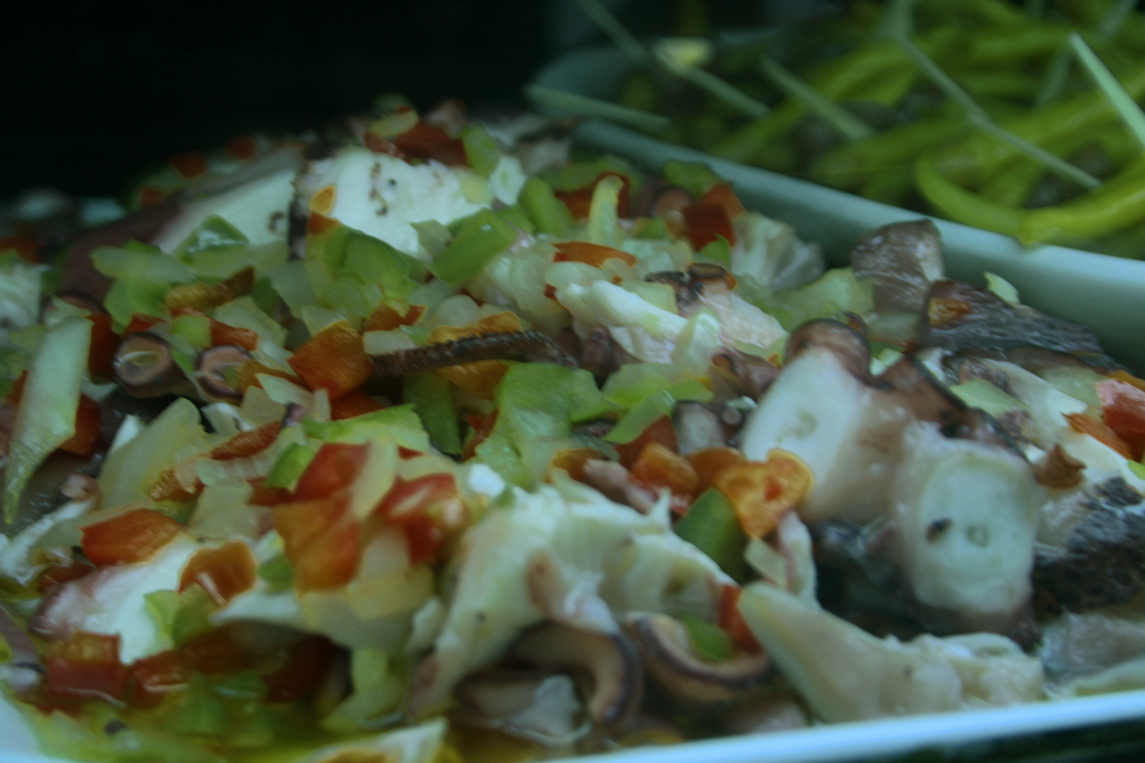 Salad of octopus with a vinaigrette of bell pepper